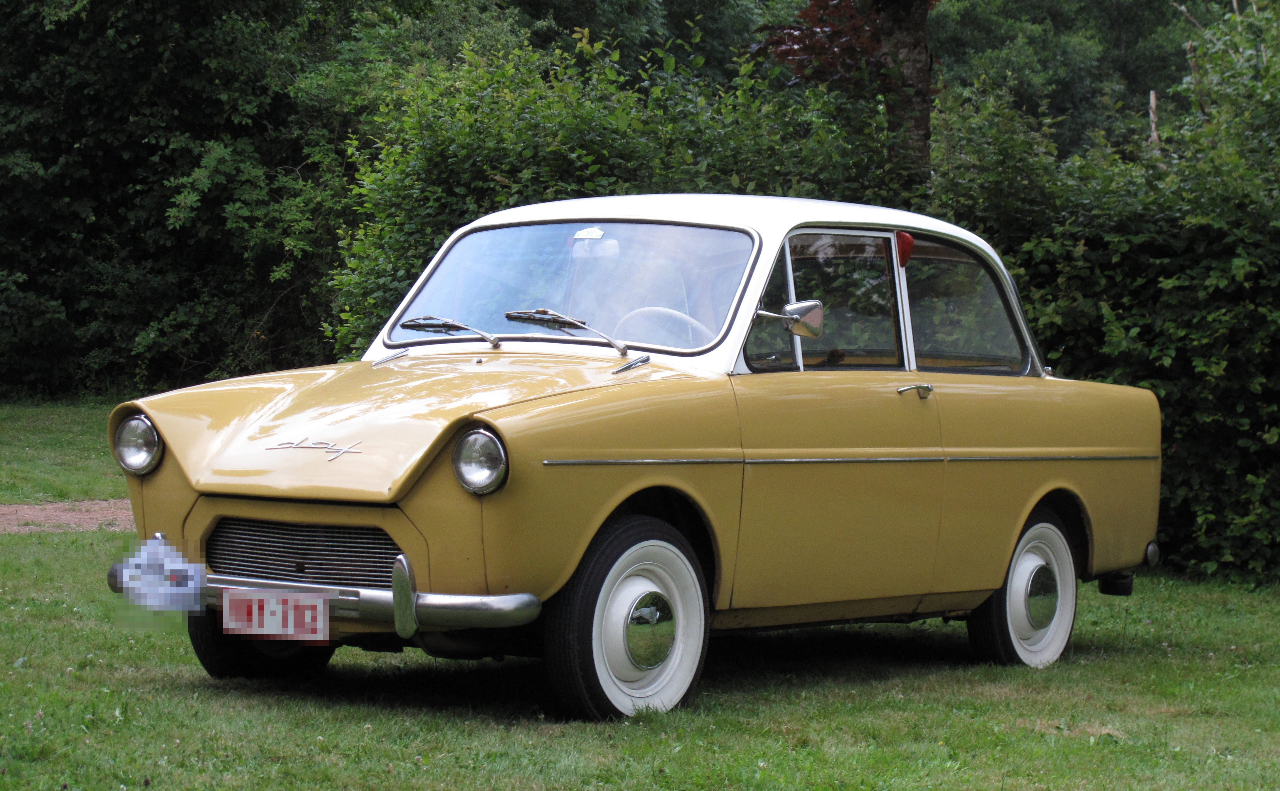 DAF 600 car